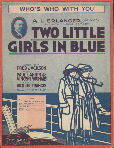 Sheet music for "Who's Who With You" from the 1921 musical Two Little Girls in Blue, composed by Paul Lannin and Vincent Youmans, with lyrics by Ira Gershwin (as Arthur Francis). Published by T.B. Harms & Francis, Day & Hunter, Inc.